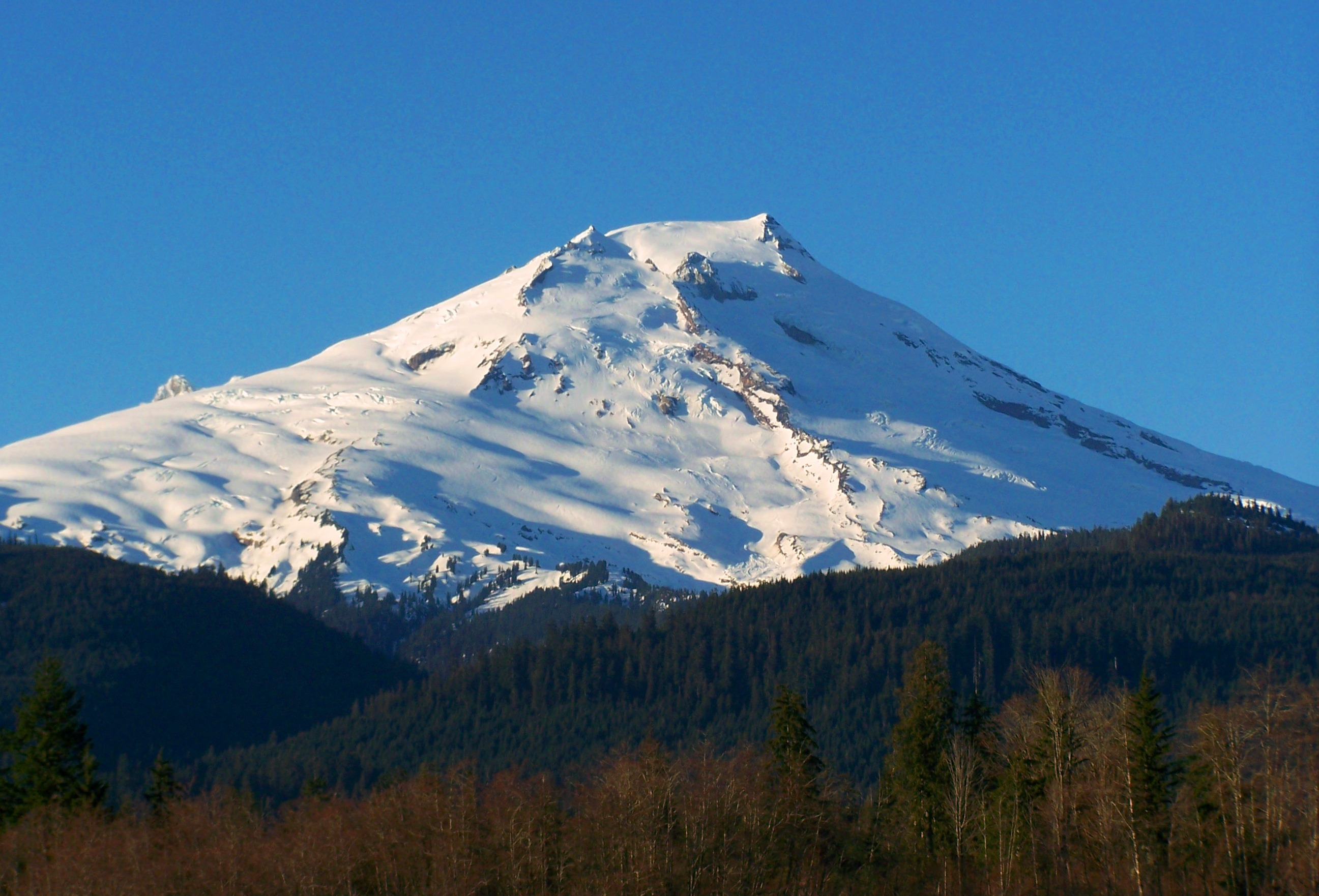 Mount Baker as seen from Baker Lake to the east and below the mountain - the Baker River which flows off of Mount Baker is the main tributary that feeds Baker Lake